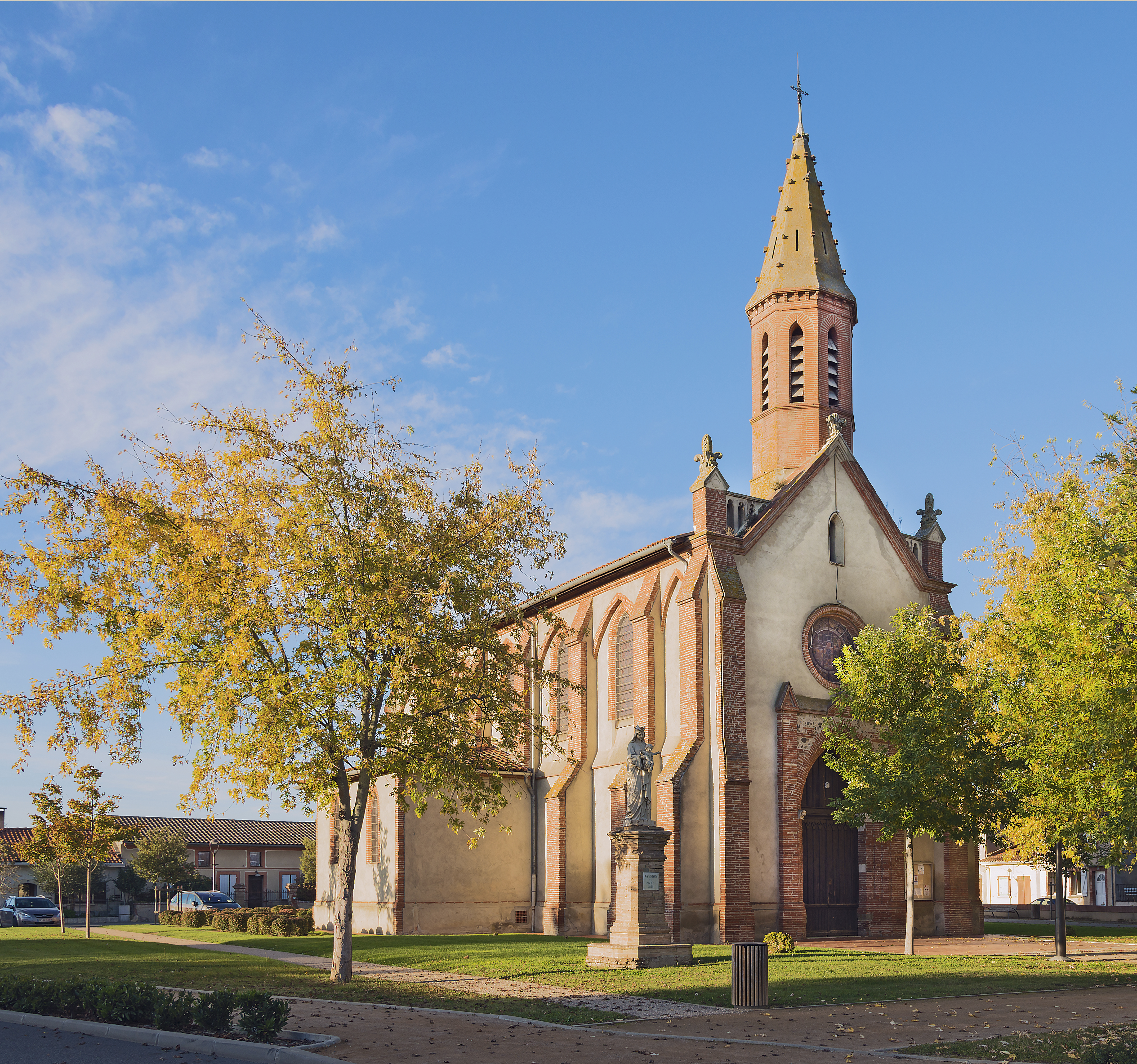 Church Sainte-Blandine of Seilh, Haute-Garonne France